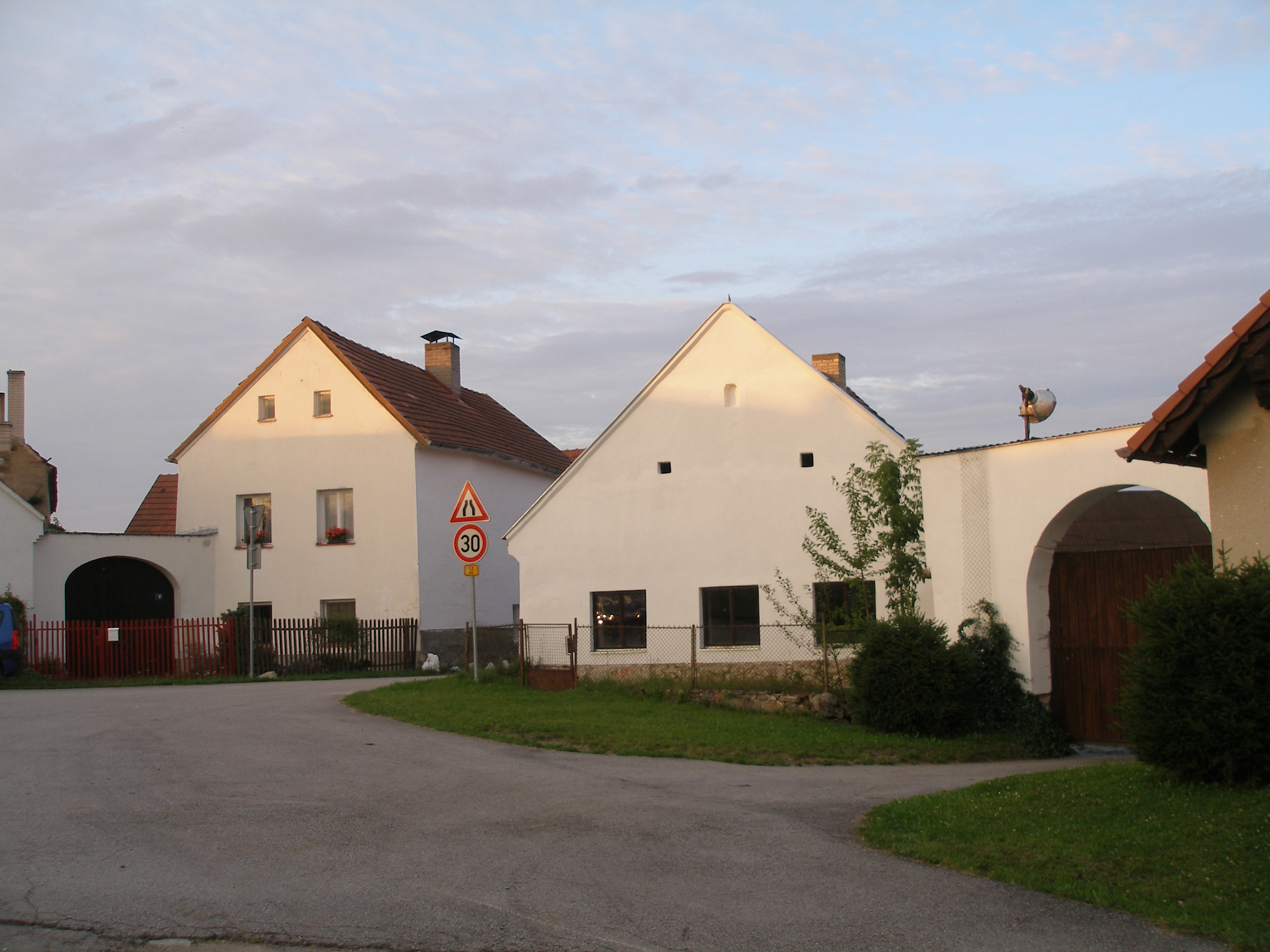 Záluží - the eastern end of the square (houses No. 17 and 14)